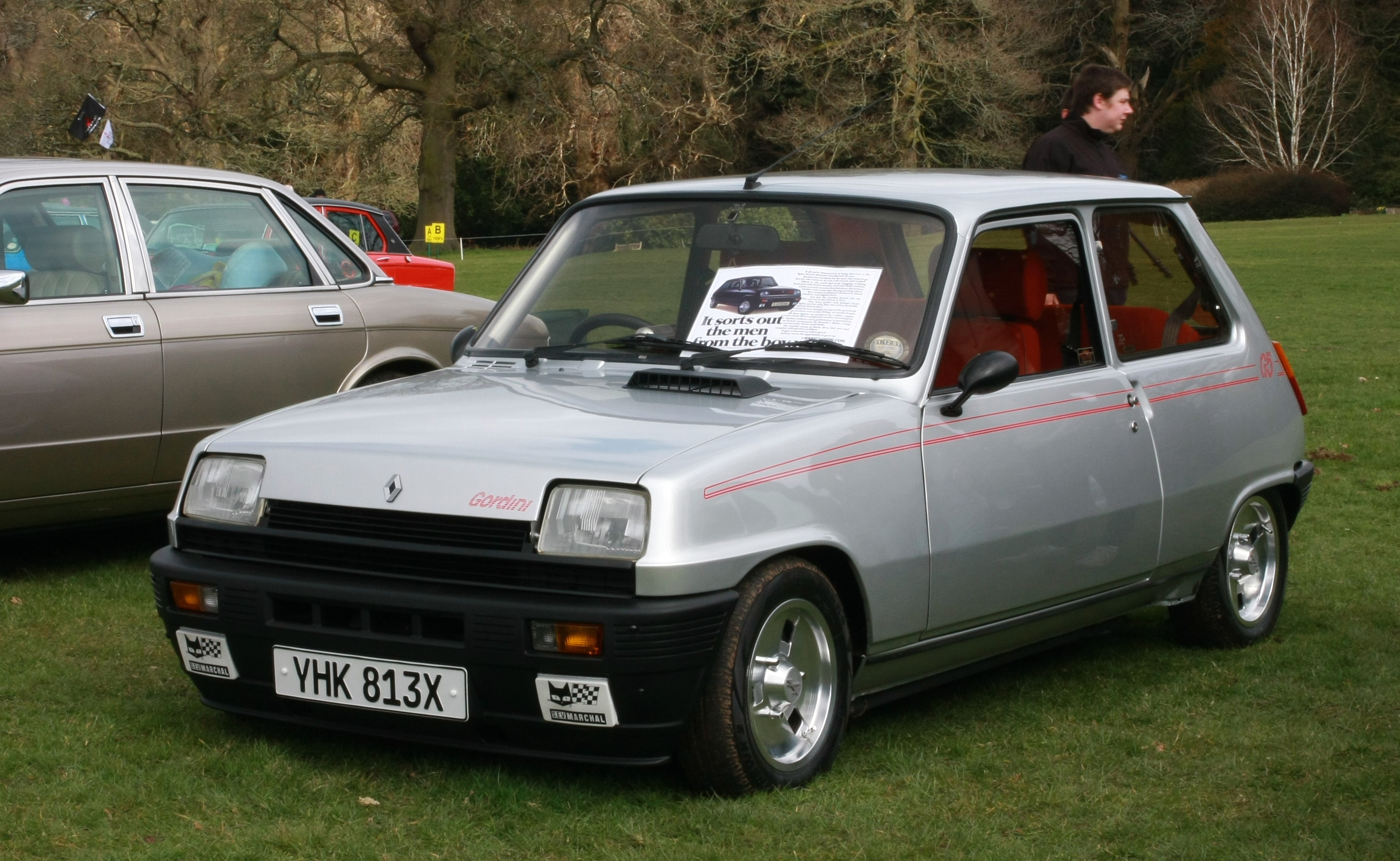 Renault 5 Gordini (1981)